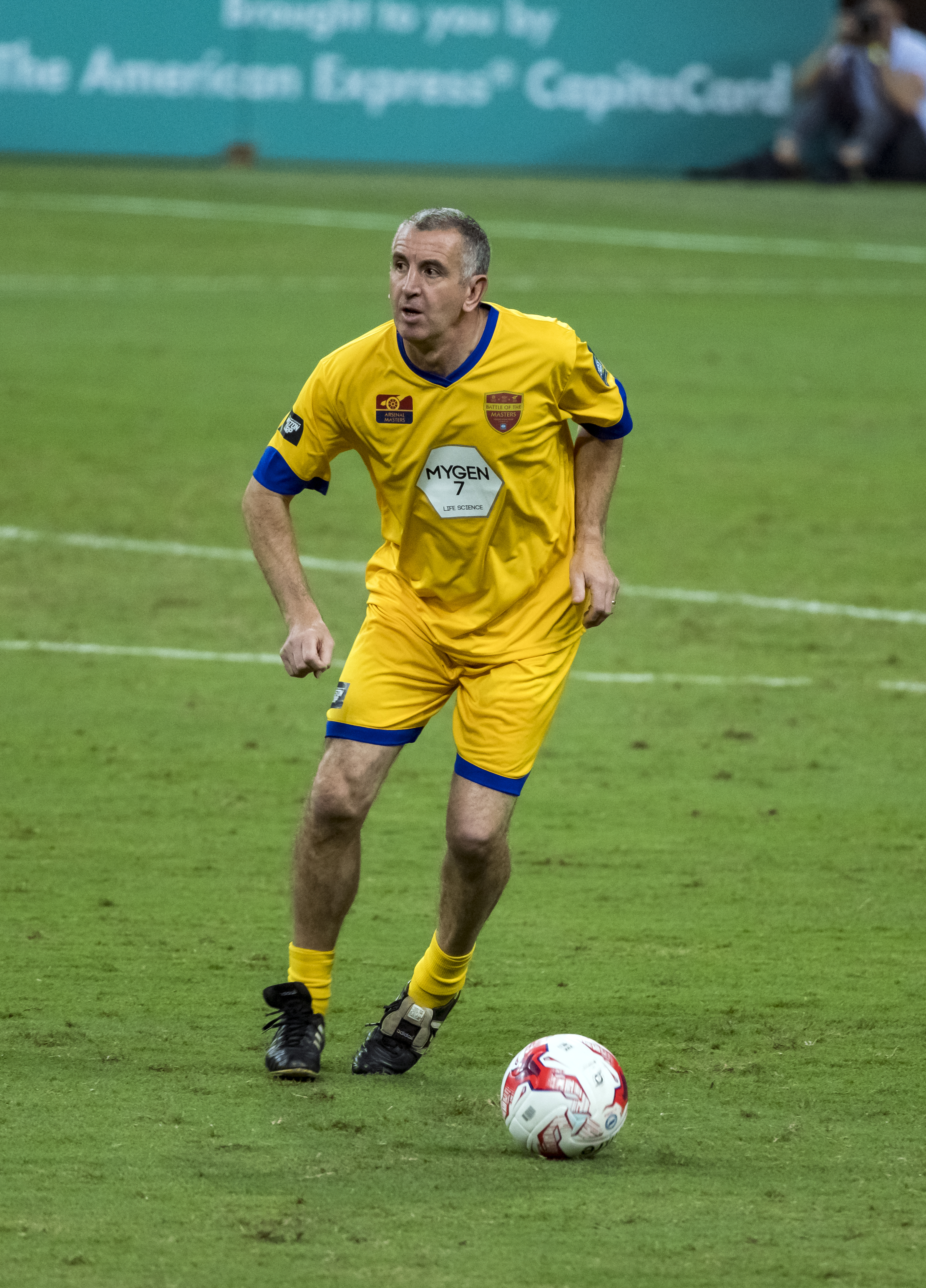 nigel winterburn arsenal masters 2017 singapore national stadium